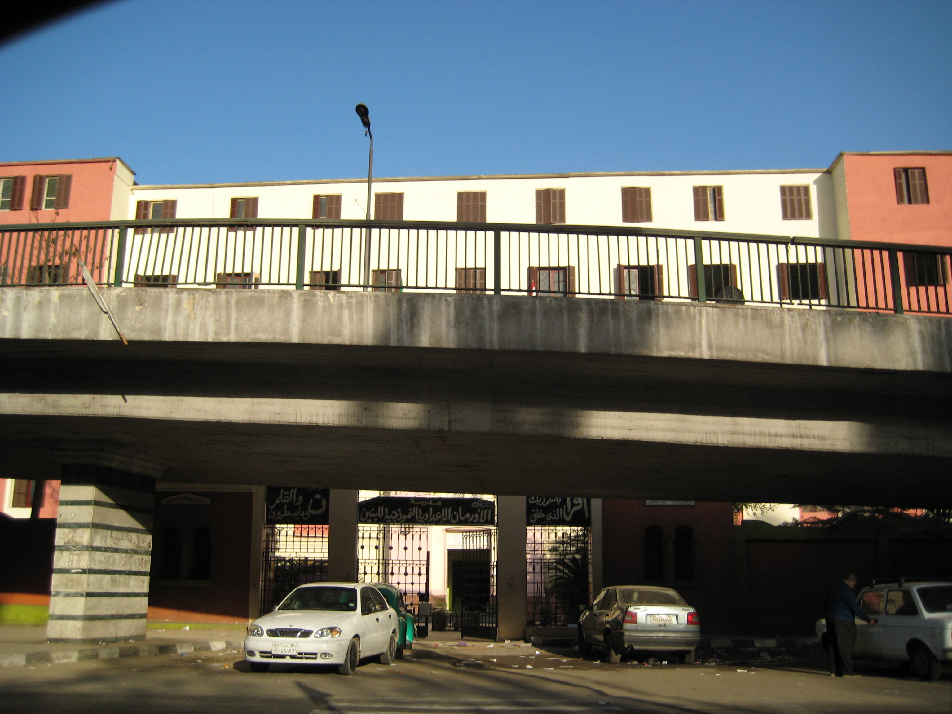 Building in Mohandessin showing the modern style of egyptian archtiecture